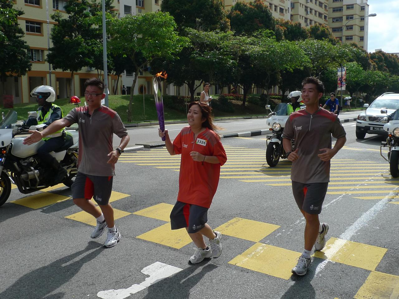 Day 3 of the 2010 Summer Youth Olympics Torch Relay in the northeast district of Singapore.